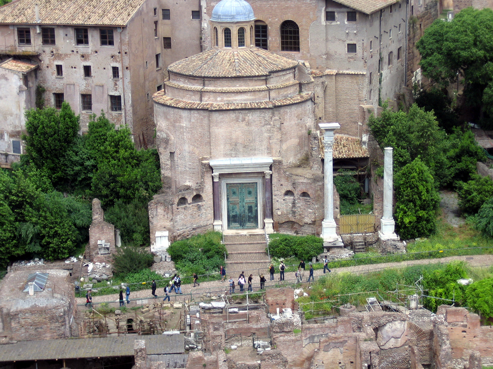 Not really a temple, but a vestibule opening into a hall of Vespasian's forum of Peace, which now houses the church of SS. Cosma e Damiano.palatine view of temple of romulus